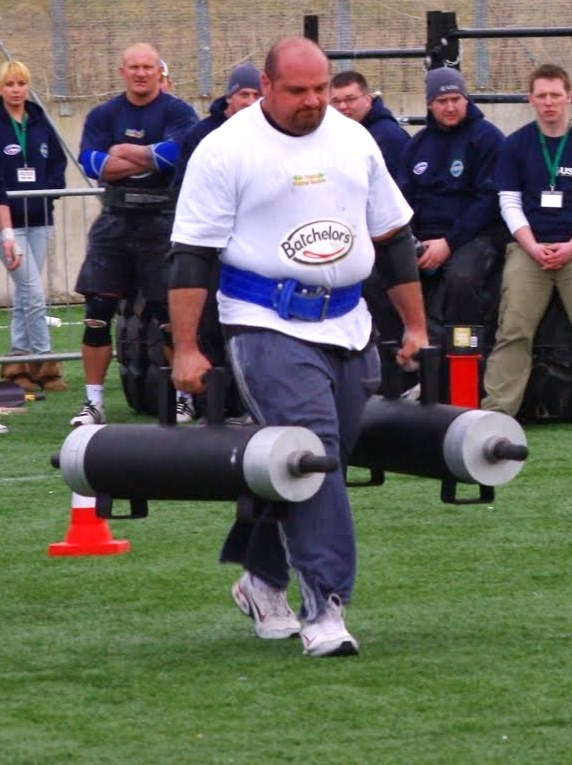 Laurence Shahlaei at the Farmer's Walk.